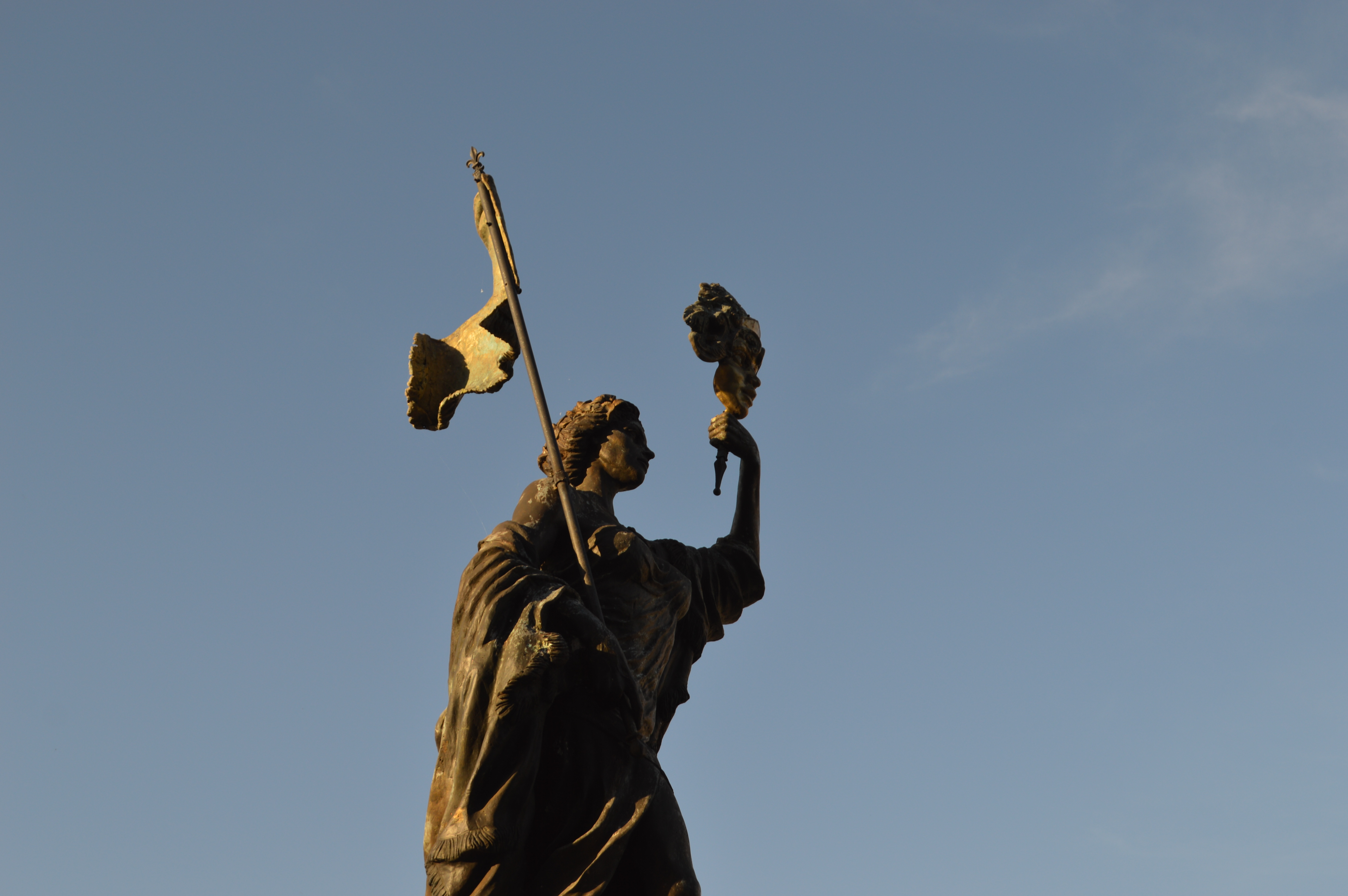 Monument, Strumica Woman Under Mask, City Square, Strumica, Republic of Macedonia.